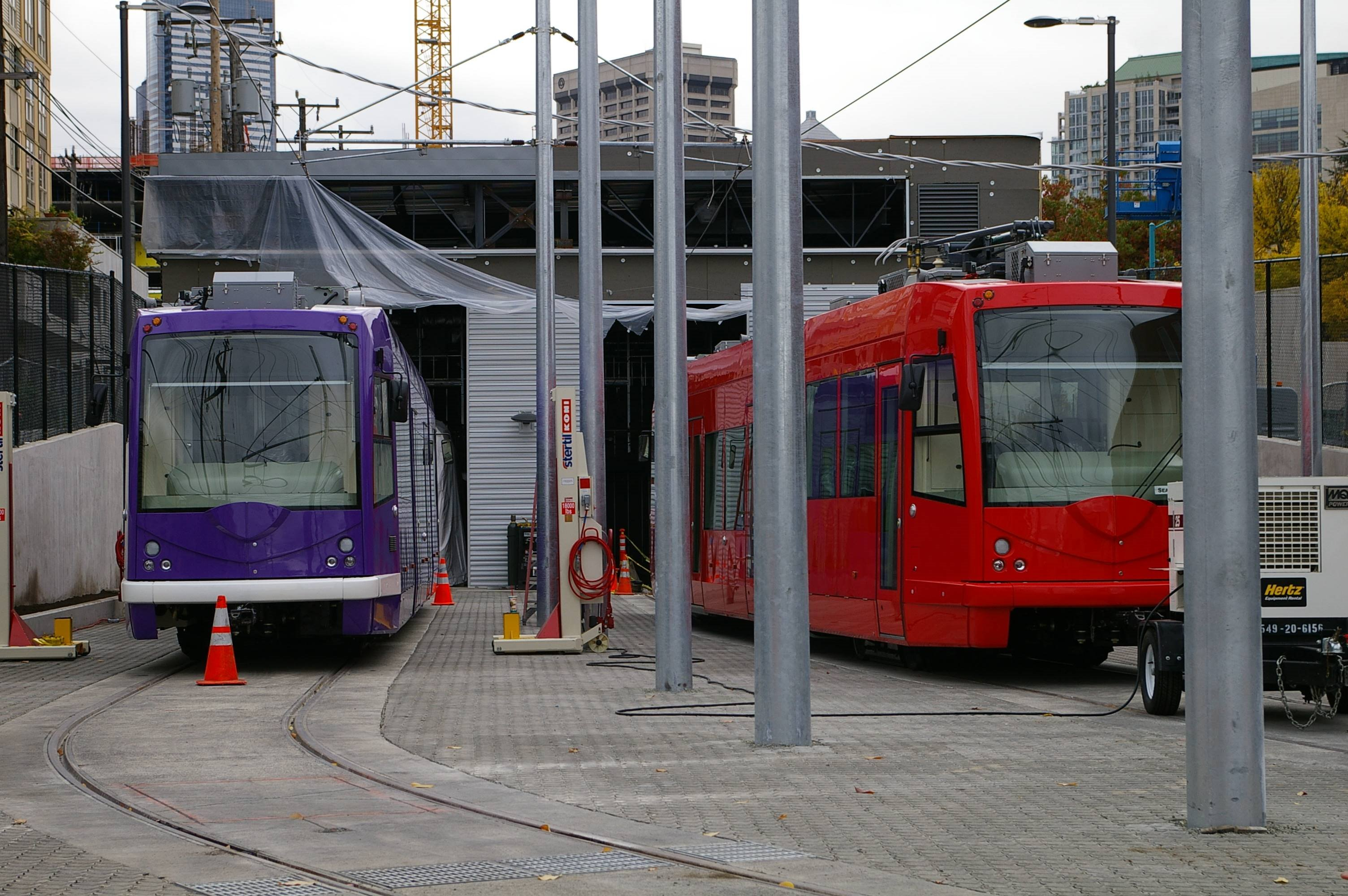 South Lake Union Streetcar before inauguration at the maintenance facility